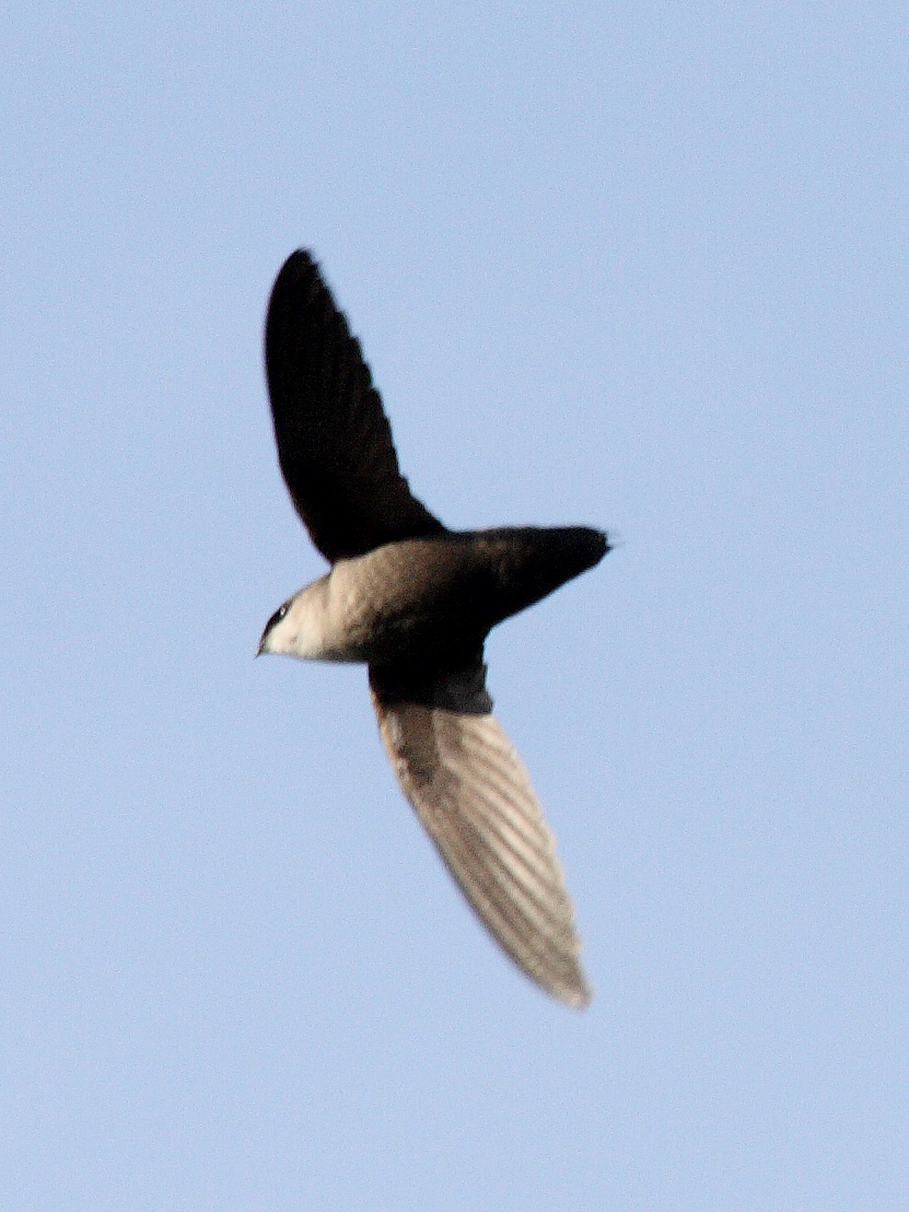 Chimney Swift